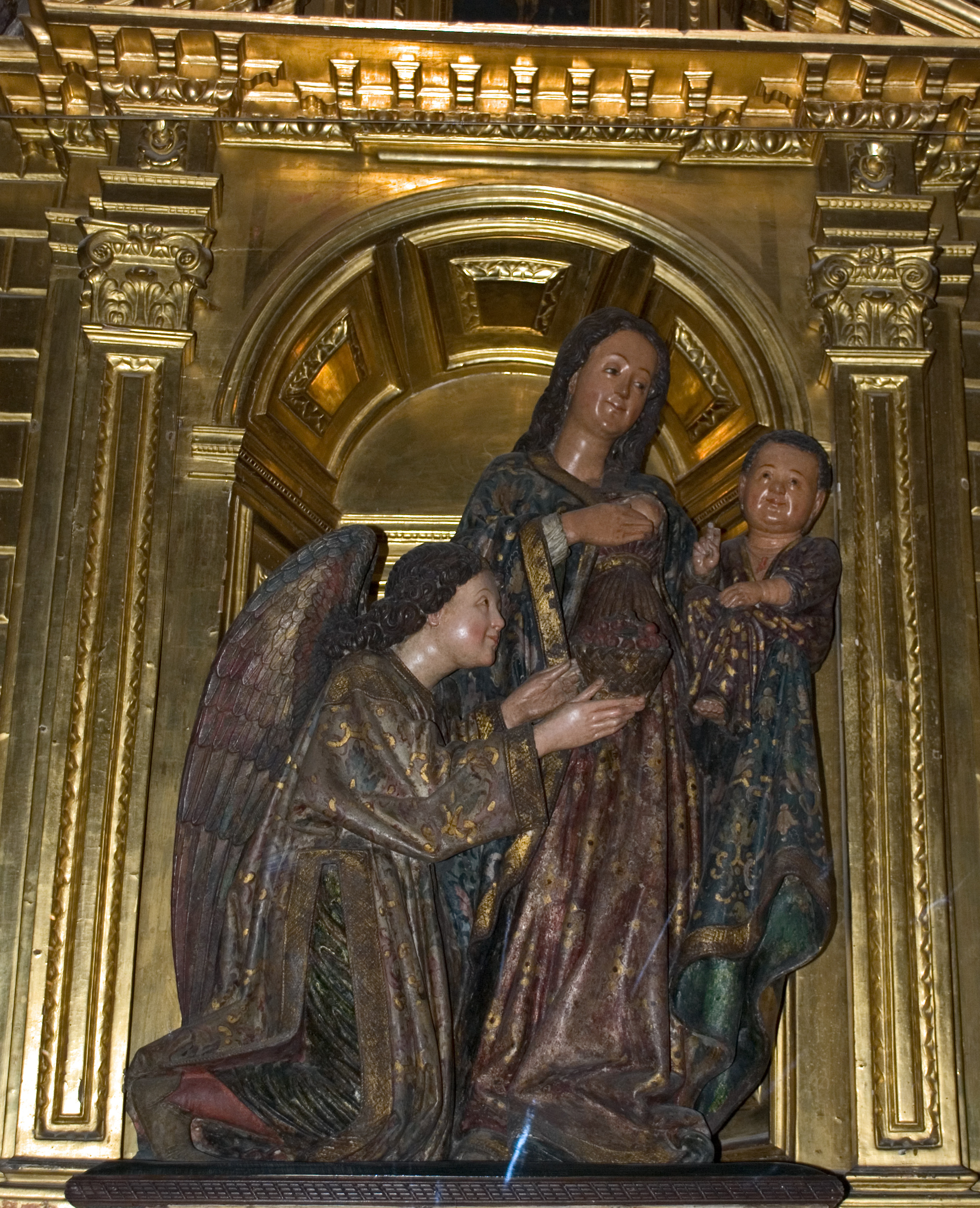 Cathedral of Seville, interior